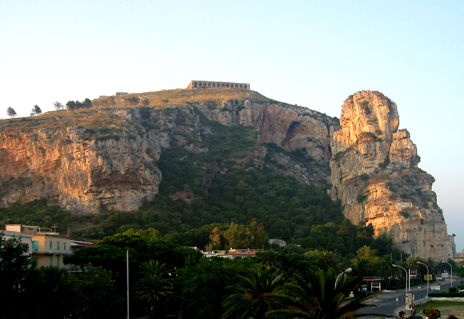 Anxur temple at Terracina in Italy.